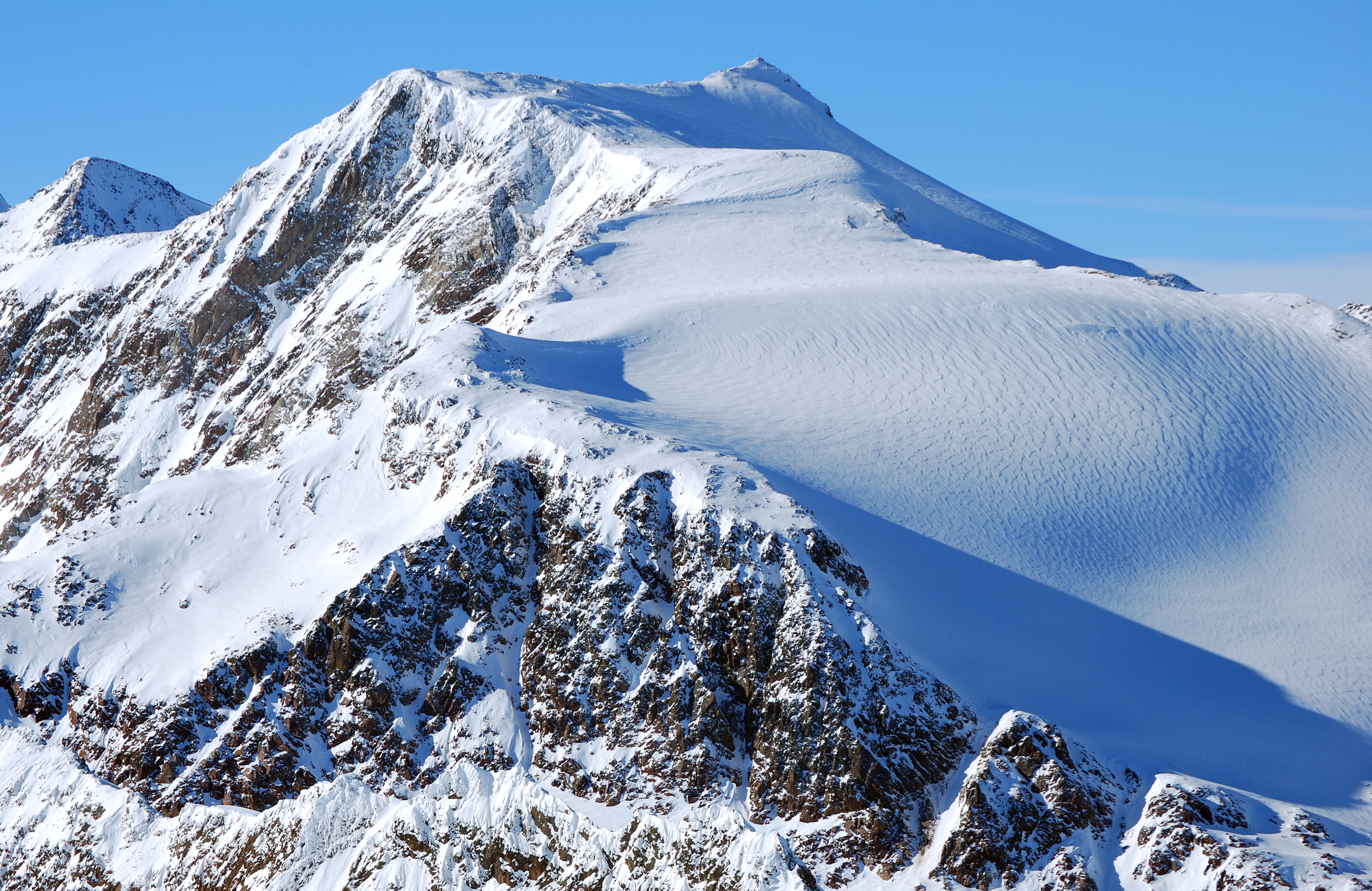 Wilder Freiger from East (Agglsspitze). left Wilder Pfaff